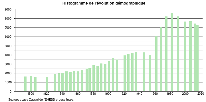 Carhaix-Plouguer polulation